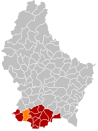 Own edit of Kanton Esch-sur-AlzetteLocatie.png